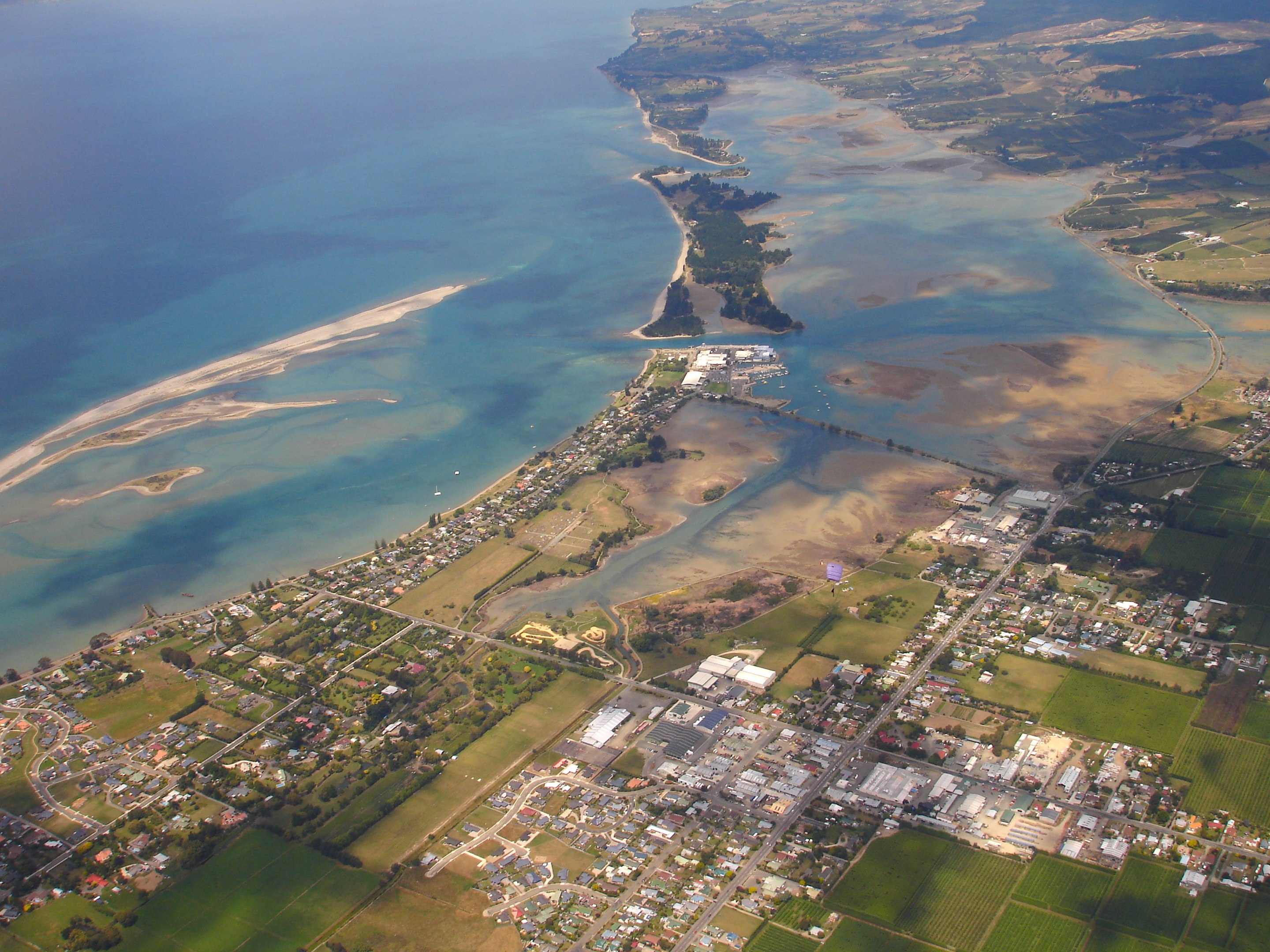 I hide the camera inside my skydiving suit and brought it out once the parachute was released.